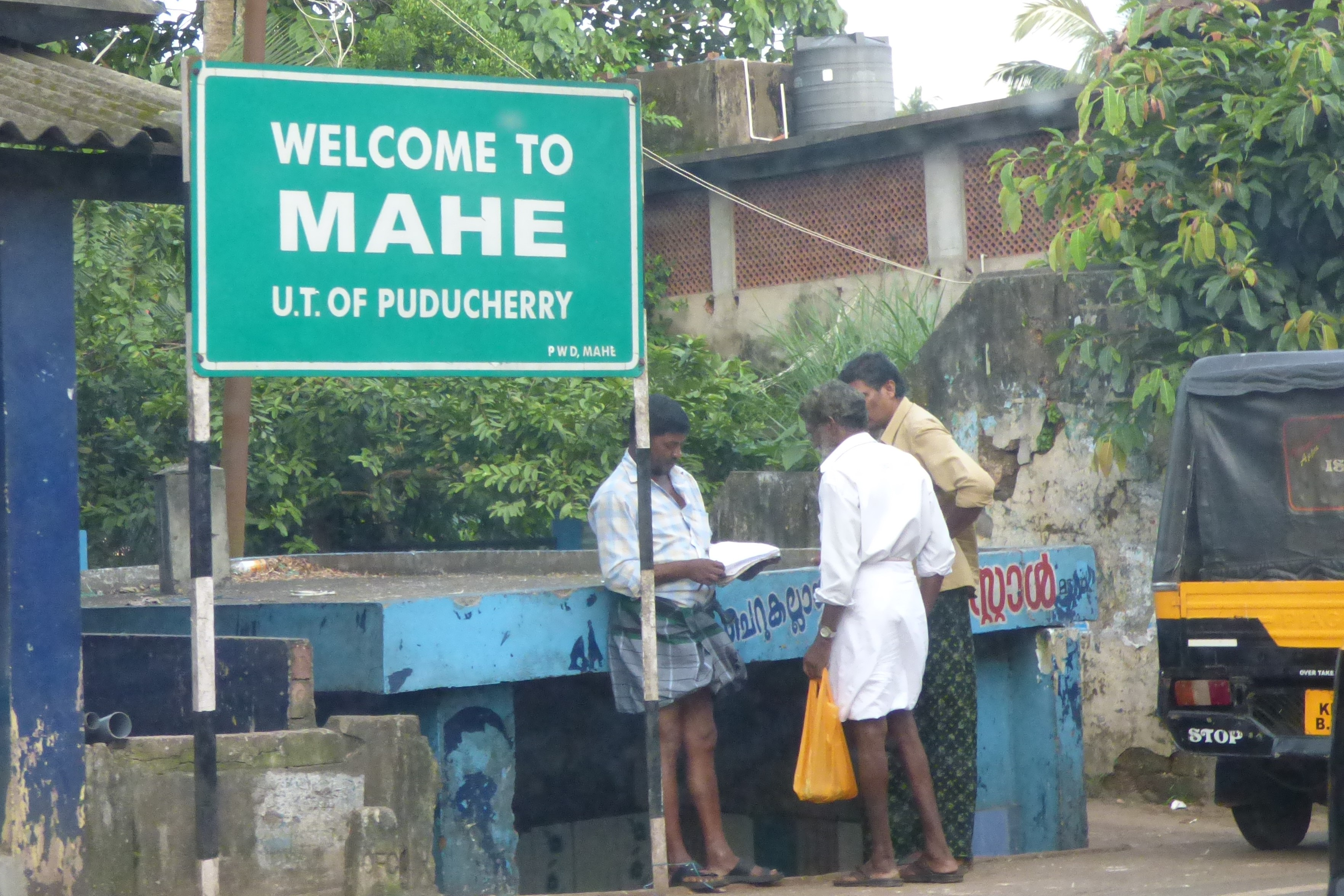 Welcome sign at the South end of Mahe Bridge